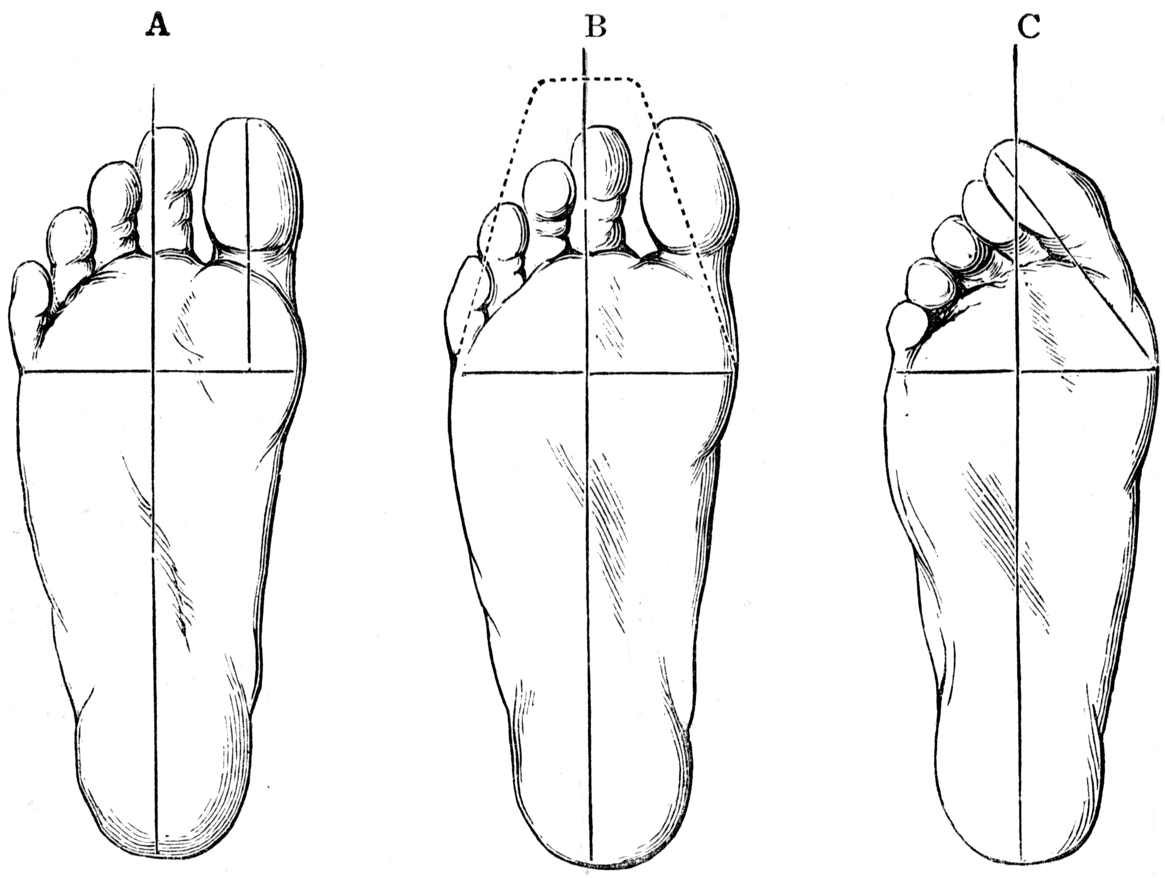 Normal and boot deformed feet